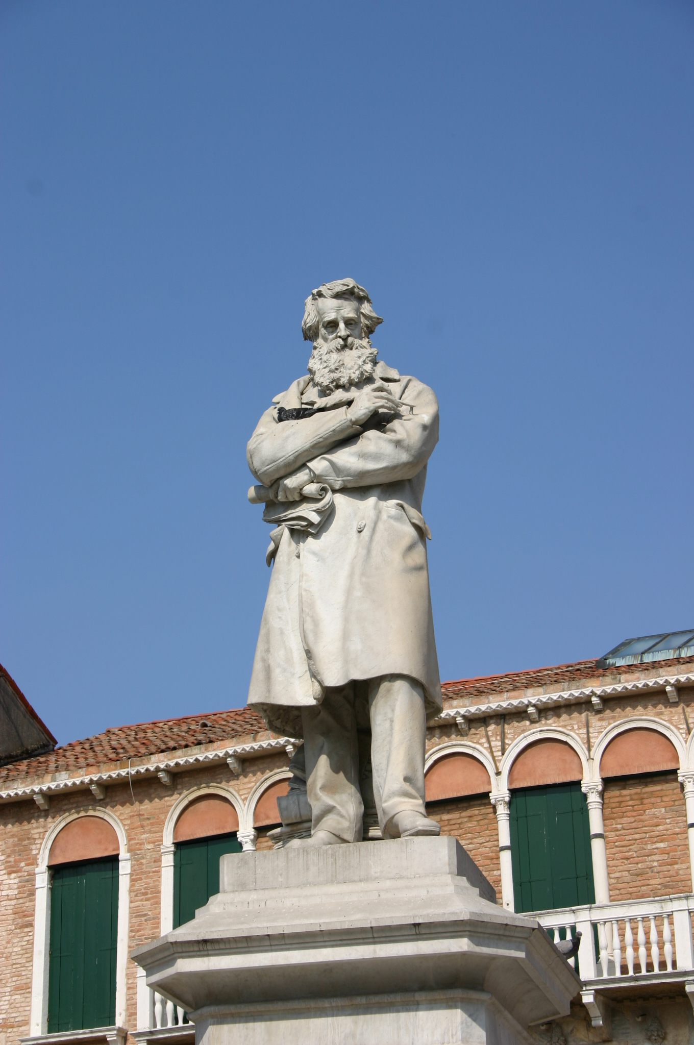 Francesco Barzaghi (1839-1892), Monument to Niccolò Tommaseo [1882], in Campo Santo Stefano square, in Venice. Picture by Giovanni Dall'Orto, August 12, 2007.